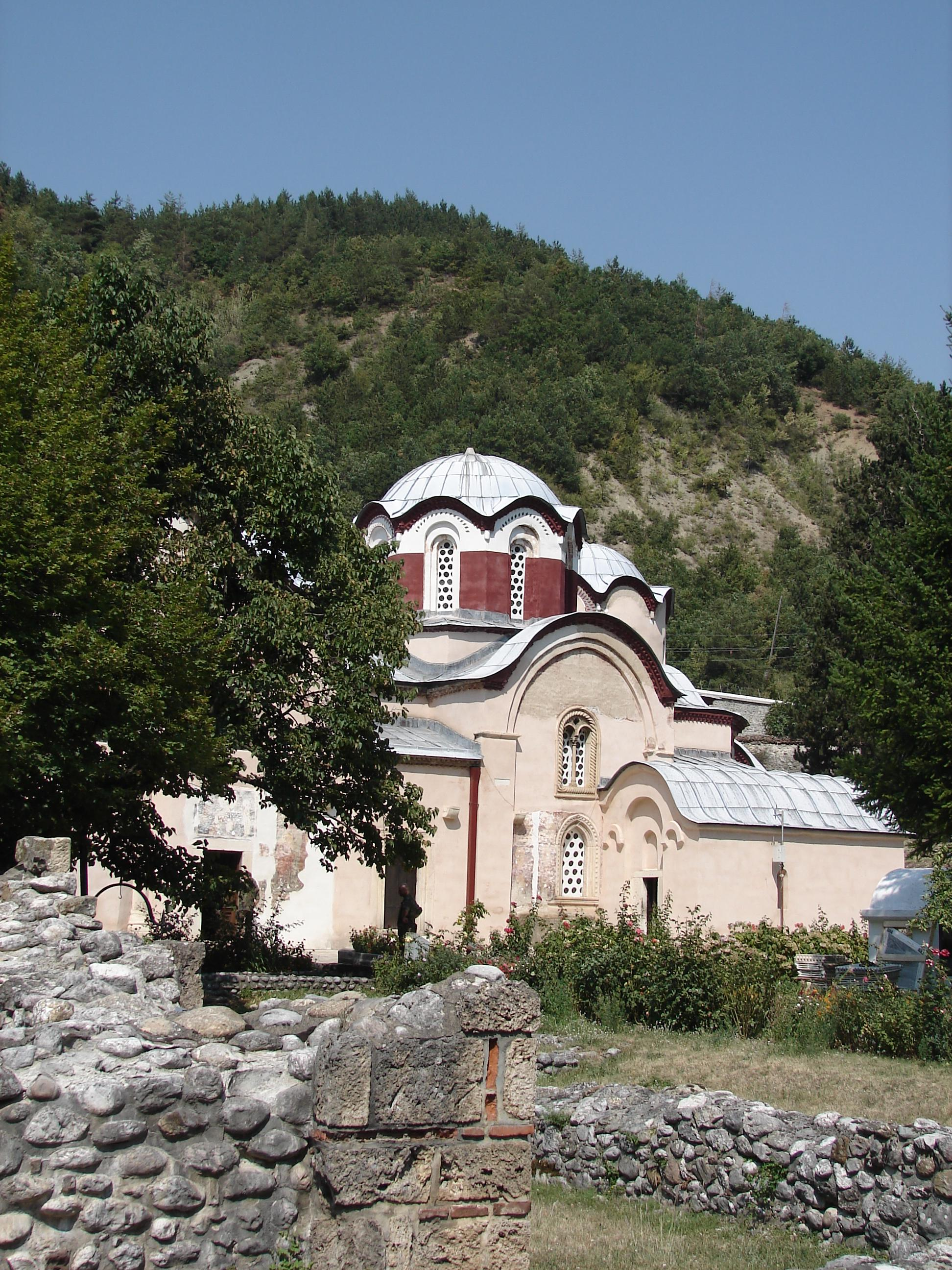 Patriarchate of Peć.